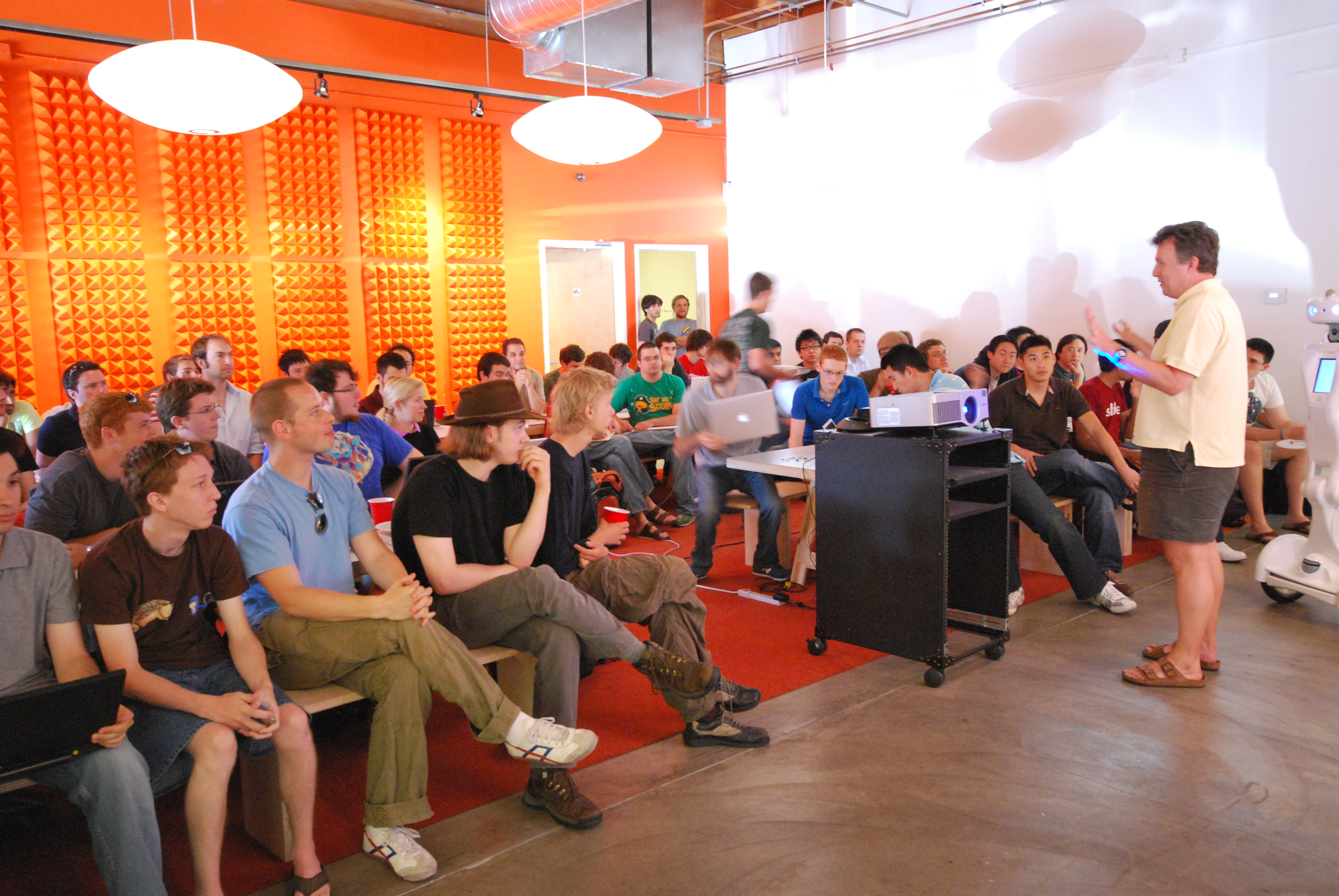 Y Combinator Summer 2009 Session